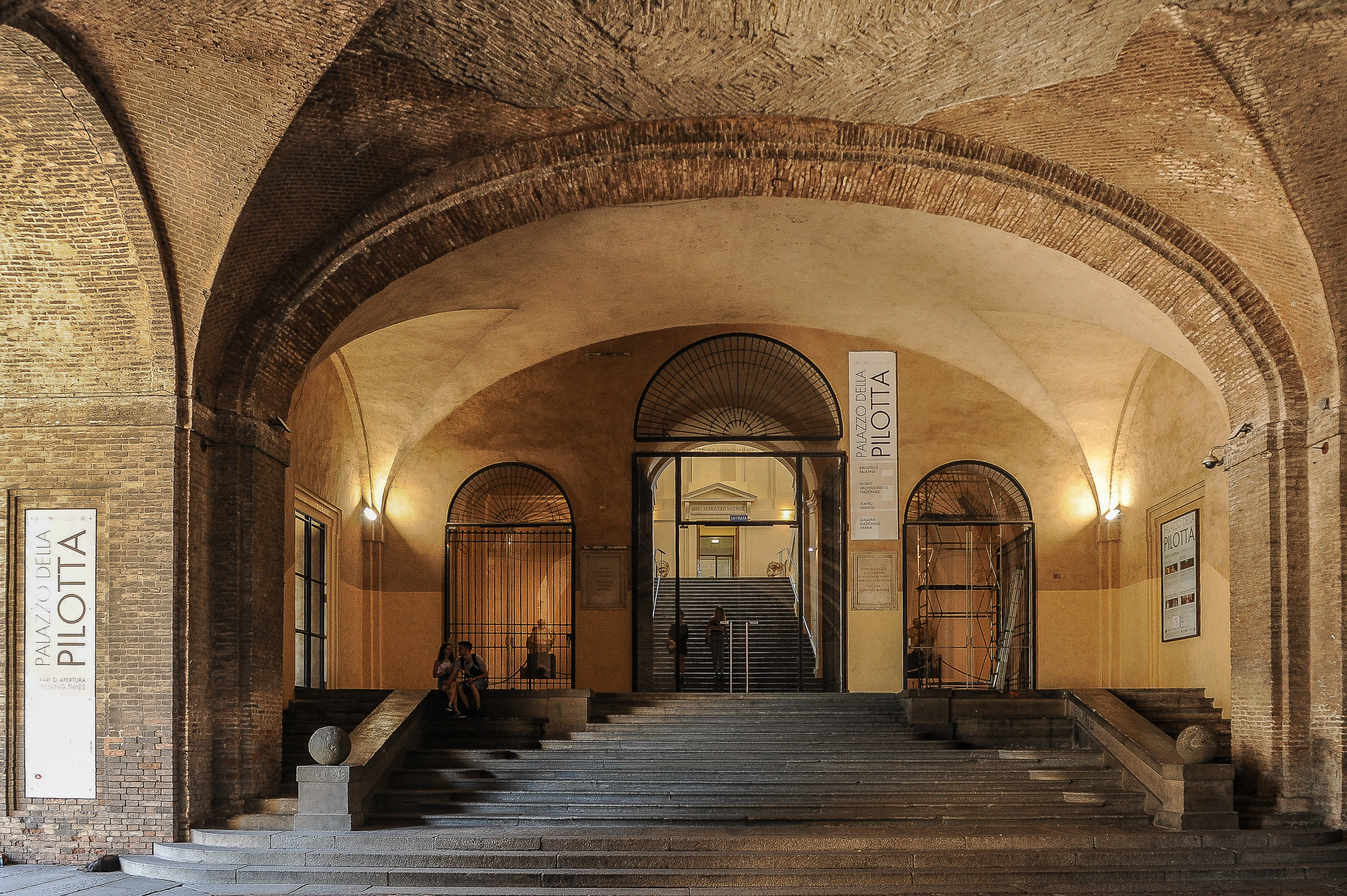 Palazzo della Pilotta, Parma, Italy